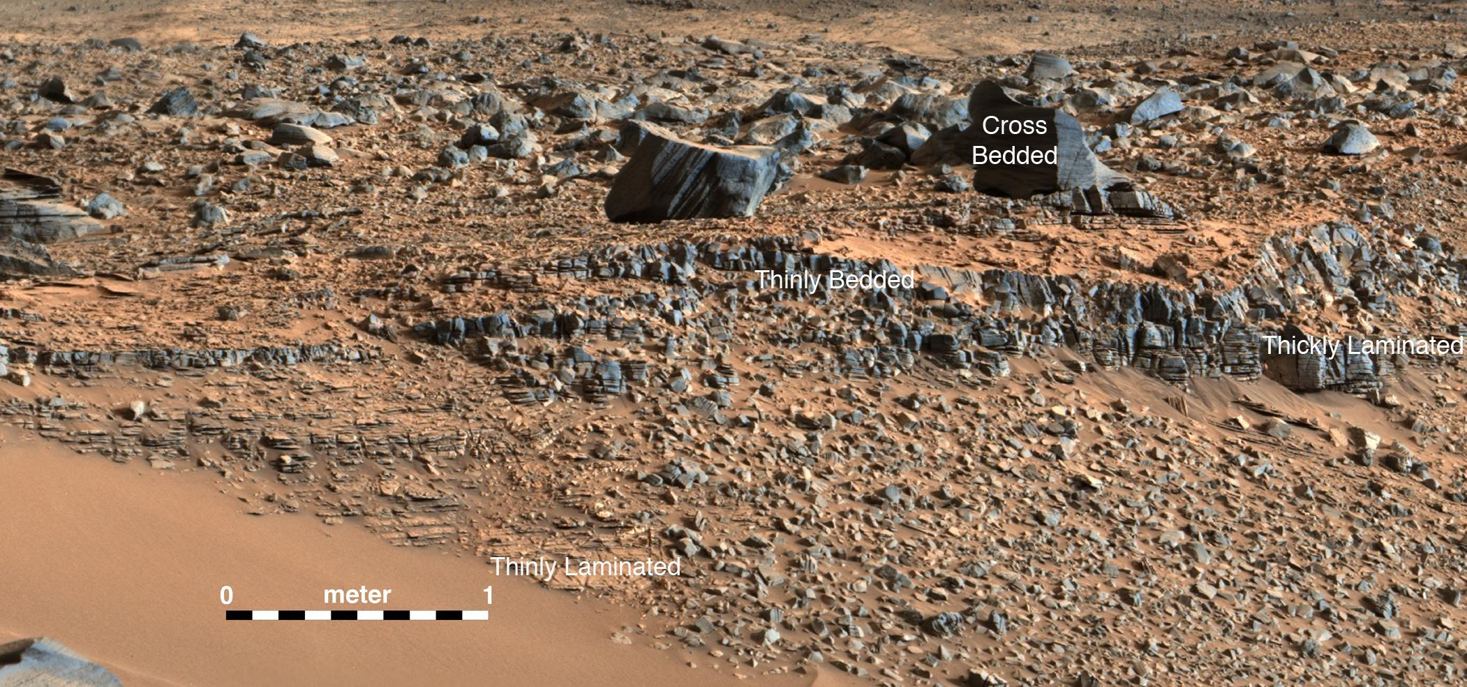 PIA19840: Secrets of 'Hidden Valley' on Mars An image taken at the "Hidden Valley" site, en-route to Mount Sharp, by NASA's Curiosity rover. A variety of mudstone strata in the area indicate a lakebed deposit, with river- and stream-related deposits nearby. Decoding the history of how these sedimentary rocks were formed, and during what period of time, was a key component in the confirming of the role of water and sedimentation in the formation of the floor of Gale Crater and Mount Sharp. This image was taken by the Mast Camera (Mastcam) on Curiosity on the 703rd Martian day, or sol, of the mission. An unannotated version can be viewed at PIA19476. Malin Space Science Systems, San Diego, built and operates Curiosity's Mastcam. NASA's Jet Propulsion Laboratory, a division of the California Institute of Technology, Pasadena, built the rover and manages the project for NASA's Science Mission Directorate, Washington. More information about Curiosity is online at and